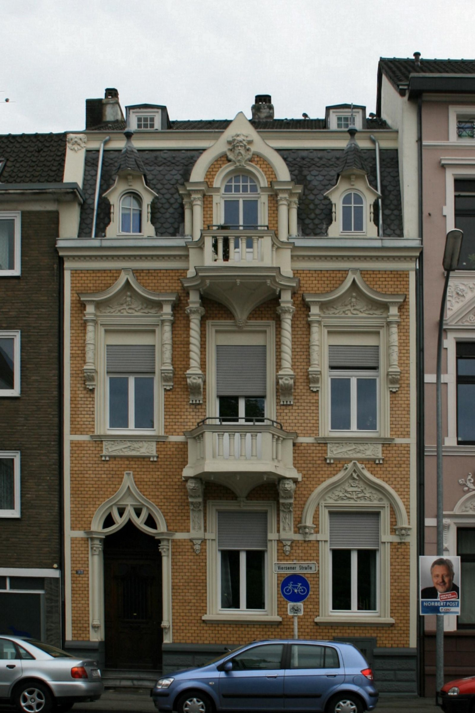 Cultural heritage monument No. V 017 in Mönchengladbach